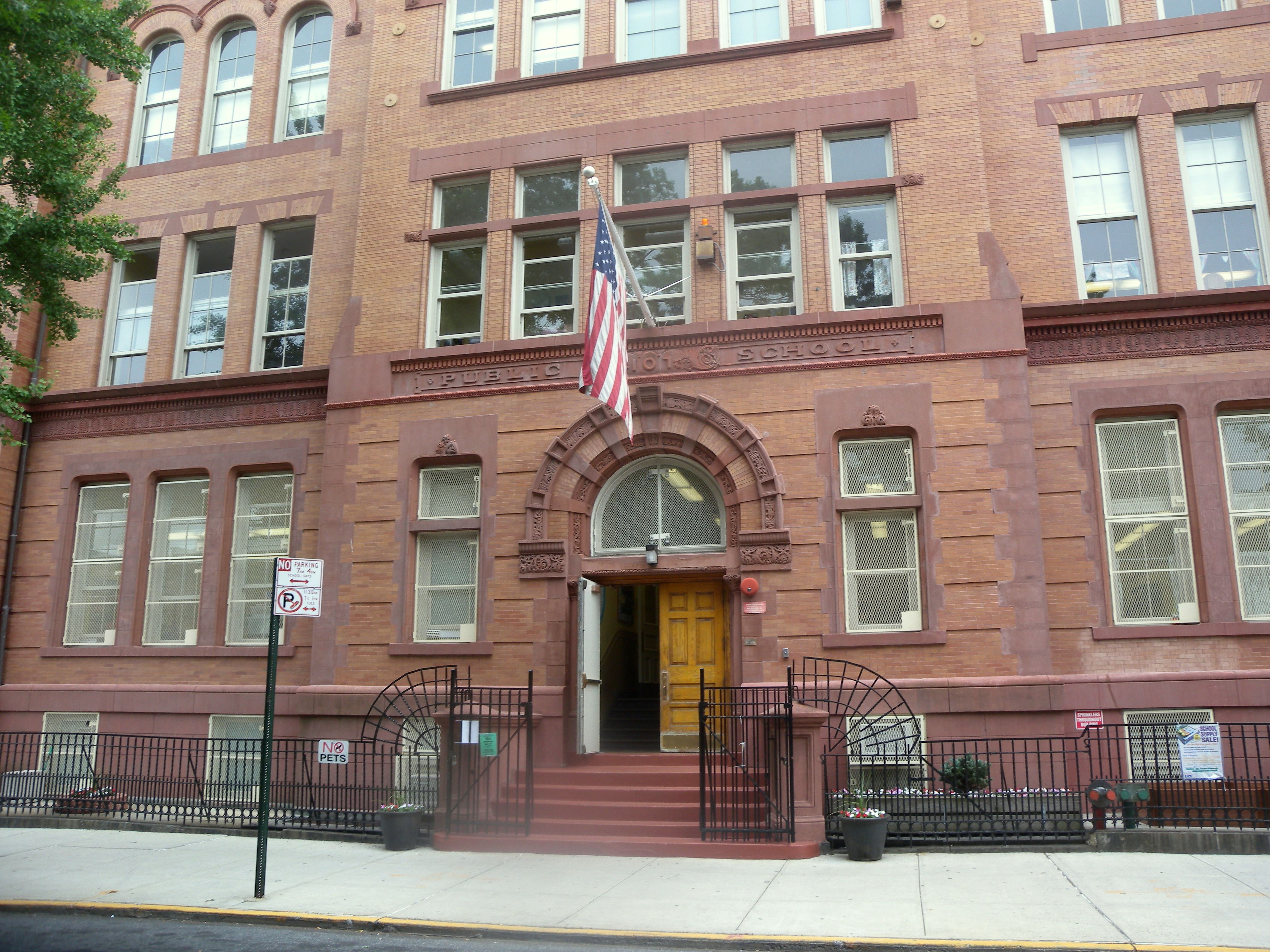 Looking east across 8th Avenue at PS 107 on a cloudy afternoon.